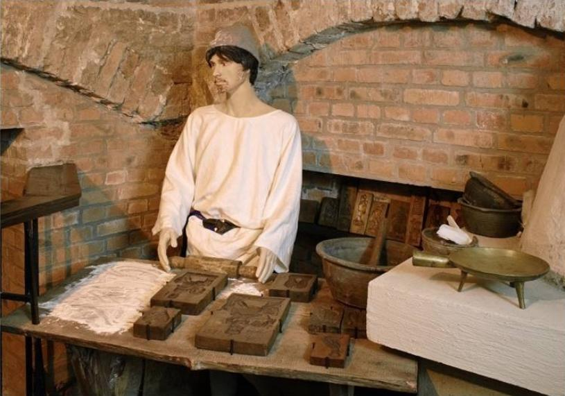 World of torun's gingerbread